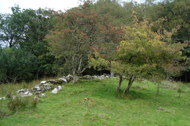 Fairy Trees near Greenan The hawthorn tree, marks the territory of the little people, as everybody knows, and must under no circumstances be cut down if misfortune is to be avoided. Seen here in full berry.